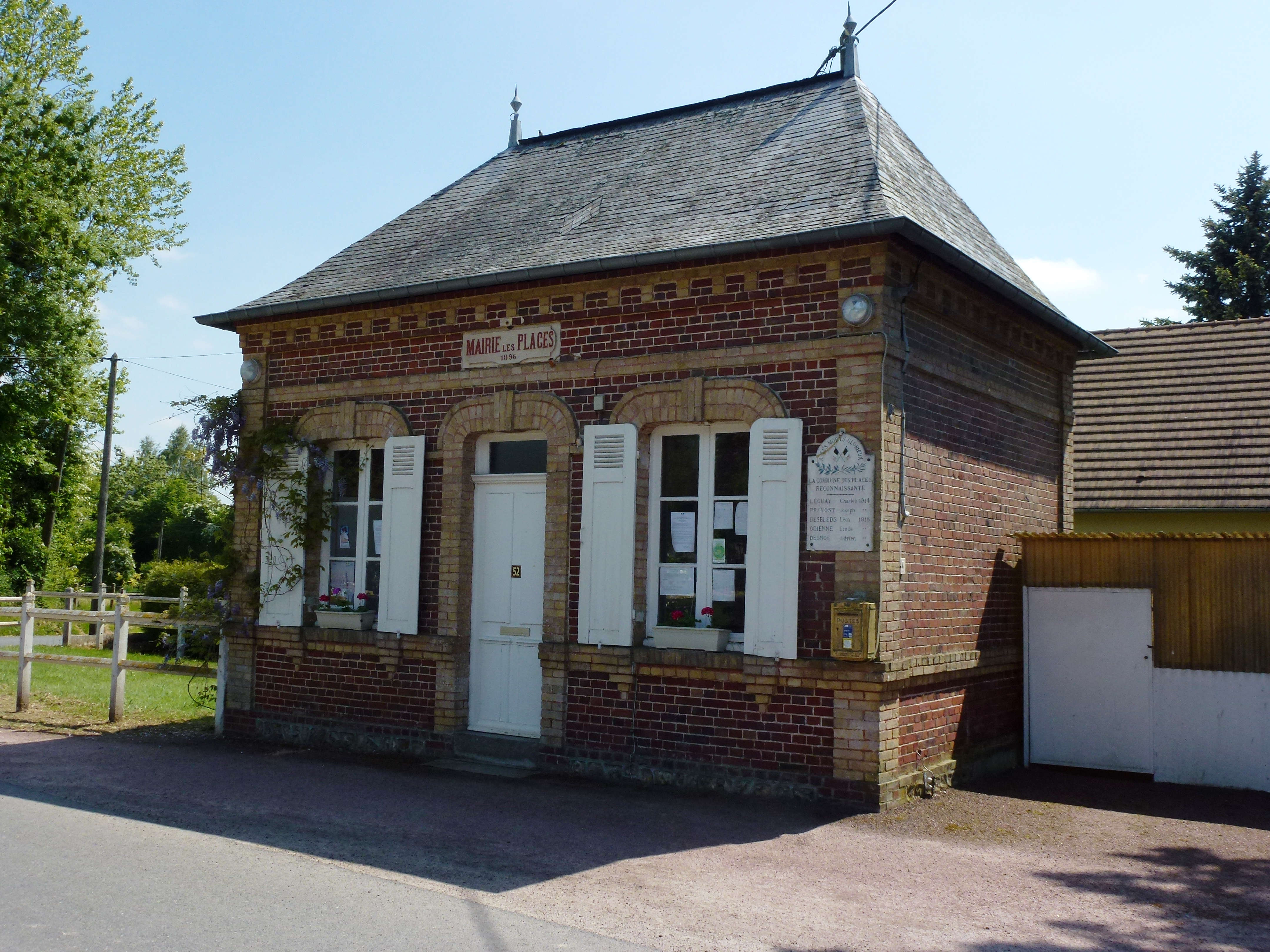 Les Places (Eure, Fr) mairie